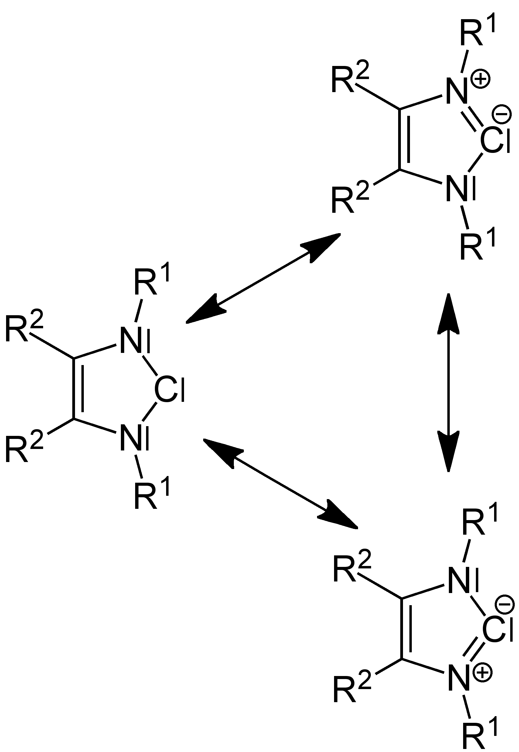 Arduengo_Carbene_Mesomeric_Structure